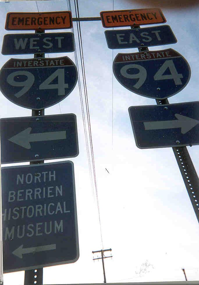 Emergency Interstate 94 signs, Church Street northbound at St. Joseph Street, Coloma, Michigan, U.S.